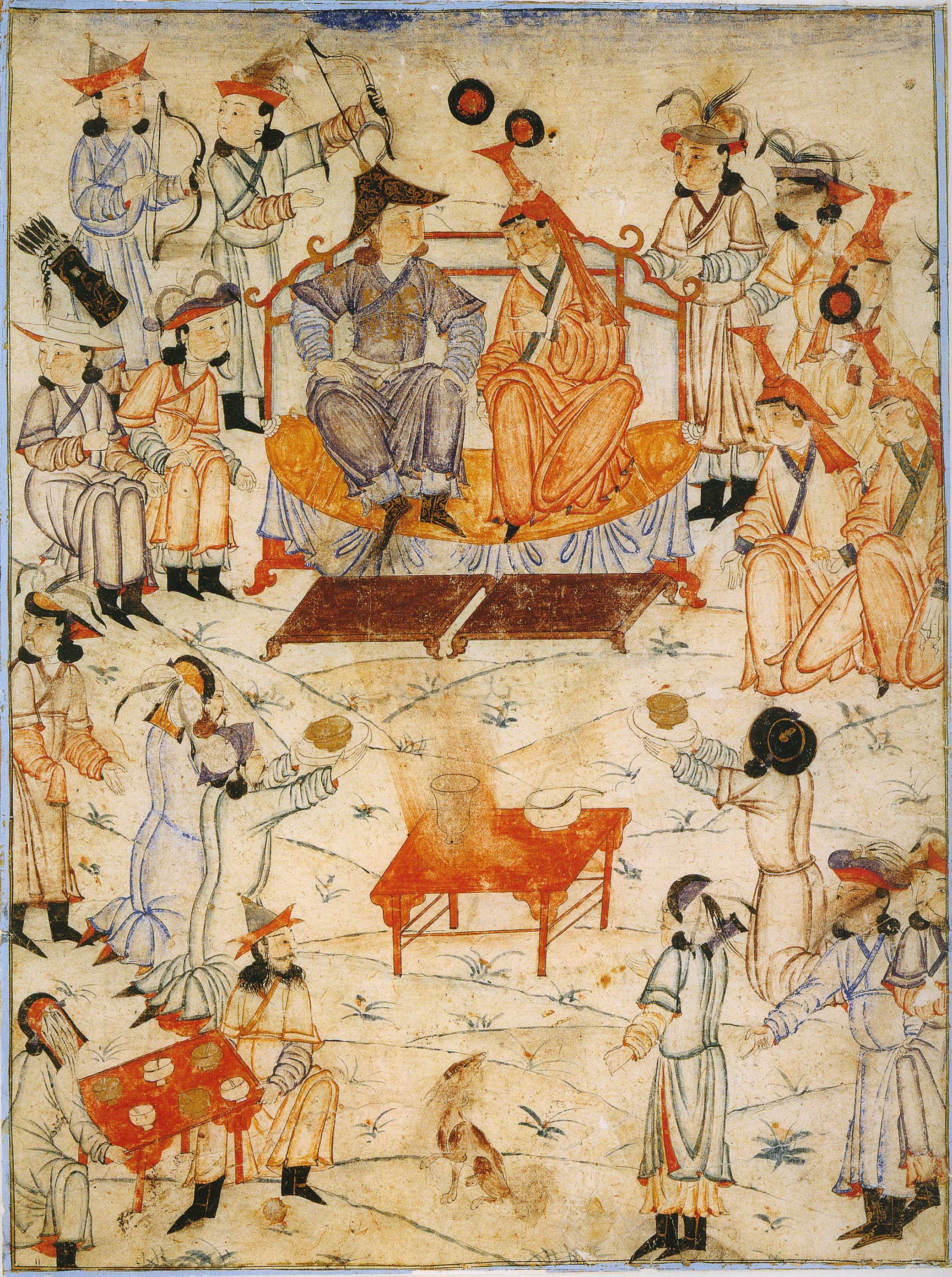 A celebration of the court. Illustration of Rashid-ad-Din's Gami' at-tawarih. Tabriz (?), 1st quarter of 14th century. Water colours and gold on paper. Original size: 33.8 cm x 25.8 cm. Staatsbibliothek Berlin, Orientabteilung, Diez A fol. 70, p. 22. Note the casual atmosphere and the dog in the foreground.